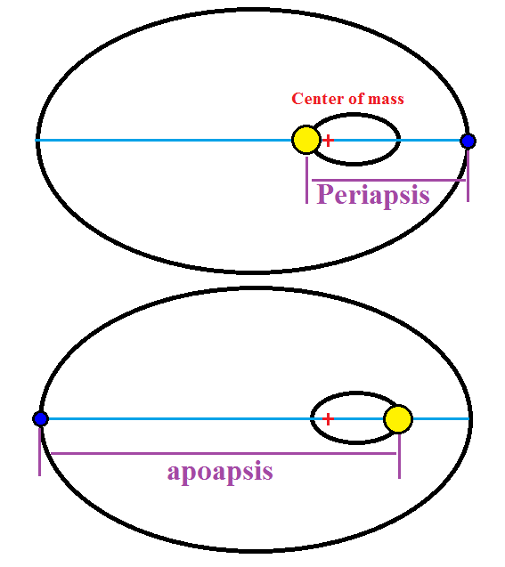 apsis examples